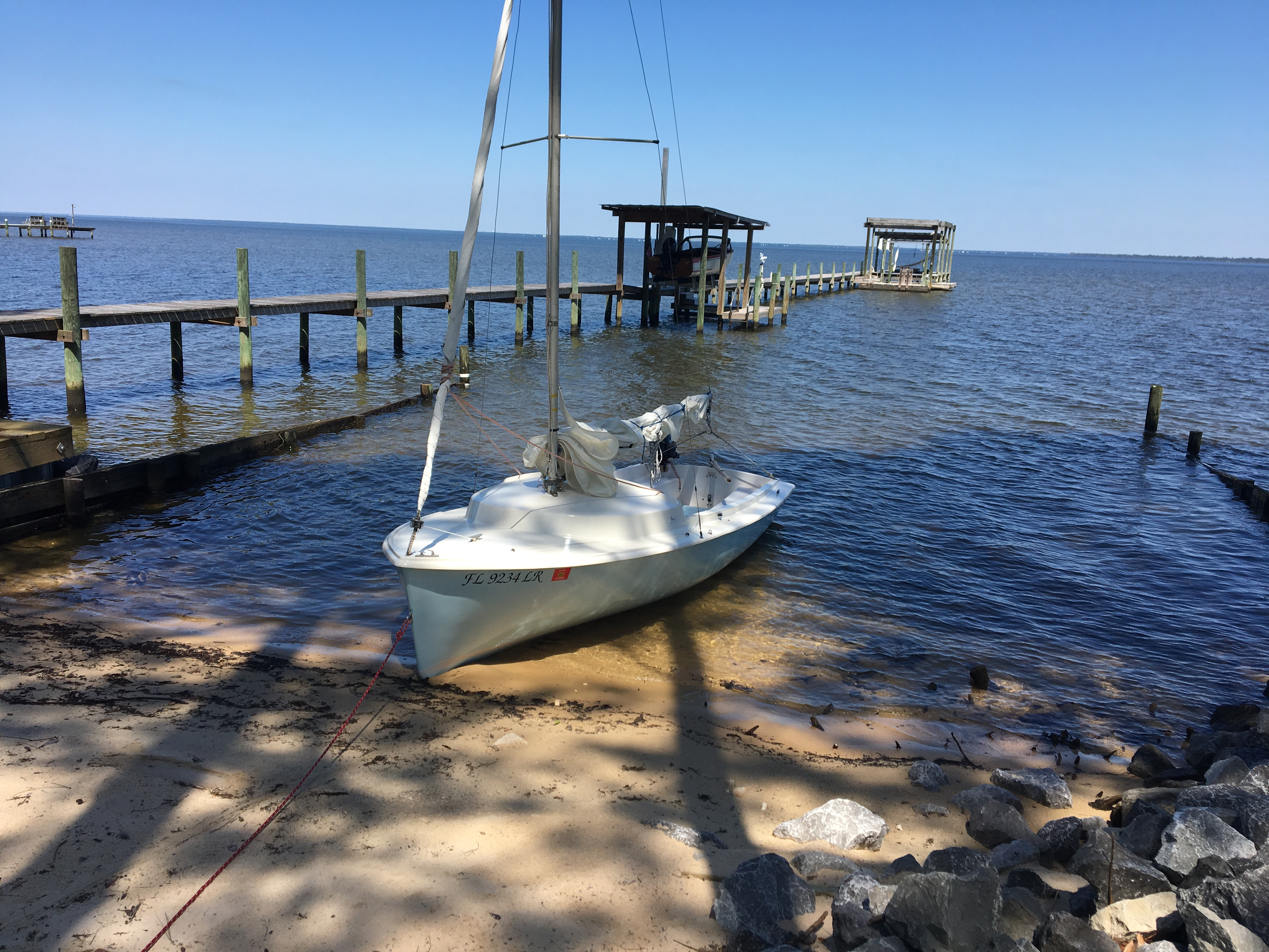 1971 O'Day Day Sailer CYANE on beach